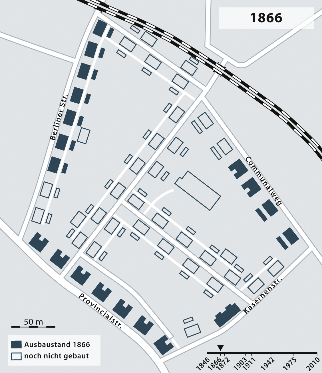 Siedlung Eisenheim (Oberhausen, Germany) in 1866